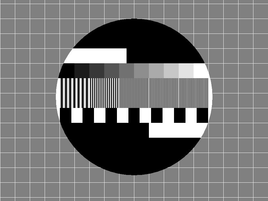 This is the Sjónvarpið testcard used Unknown date